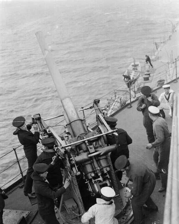 IWM caption : "A 3 inch anti-aircraft gun in action on board the British battleship HMS Royal Oak".